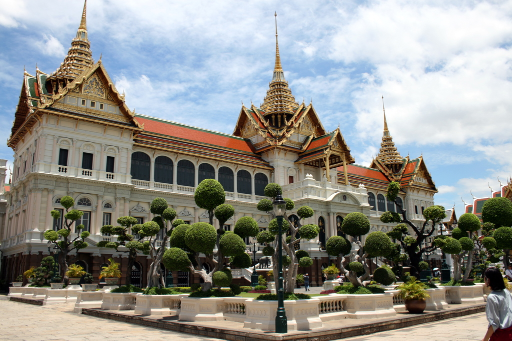 One on the main building of the Grand Palace, in Bangkok (Thailand). Uno de los edificios principales del Gran Palacion, en Bangkok (Tailandia)